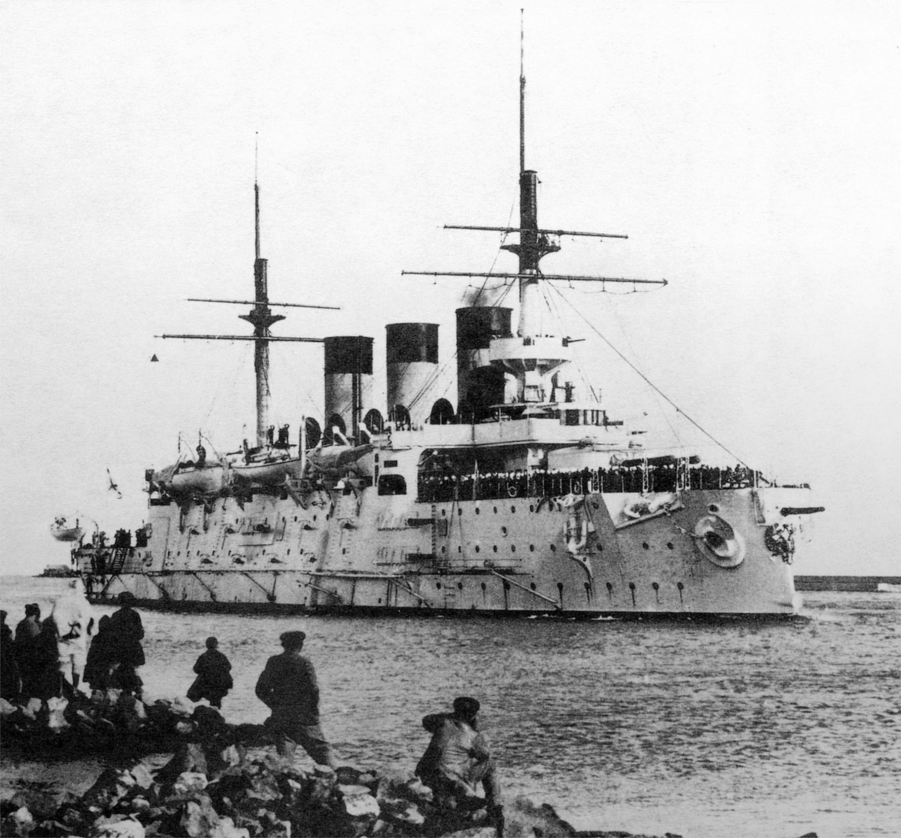 Imperial Russian Ironclad warship Oslyabya.